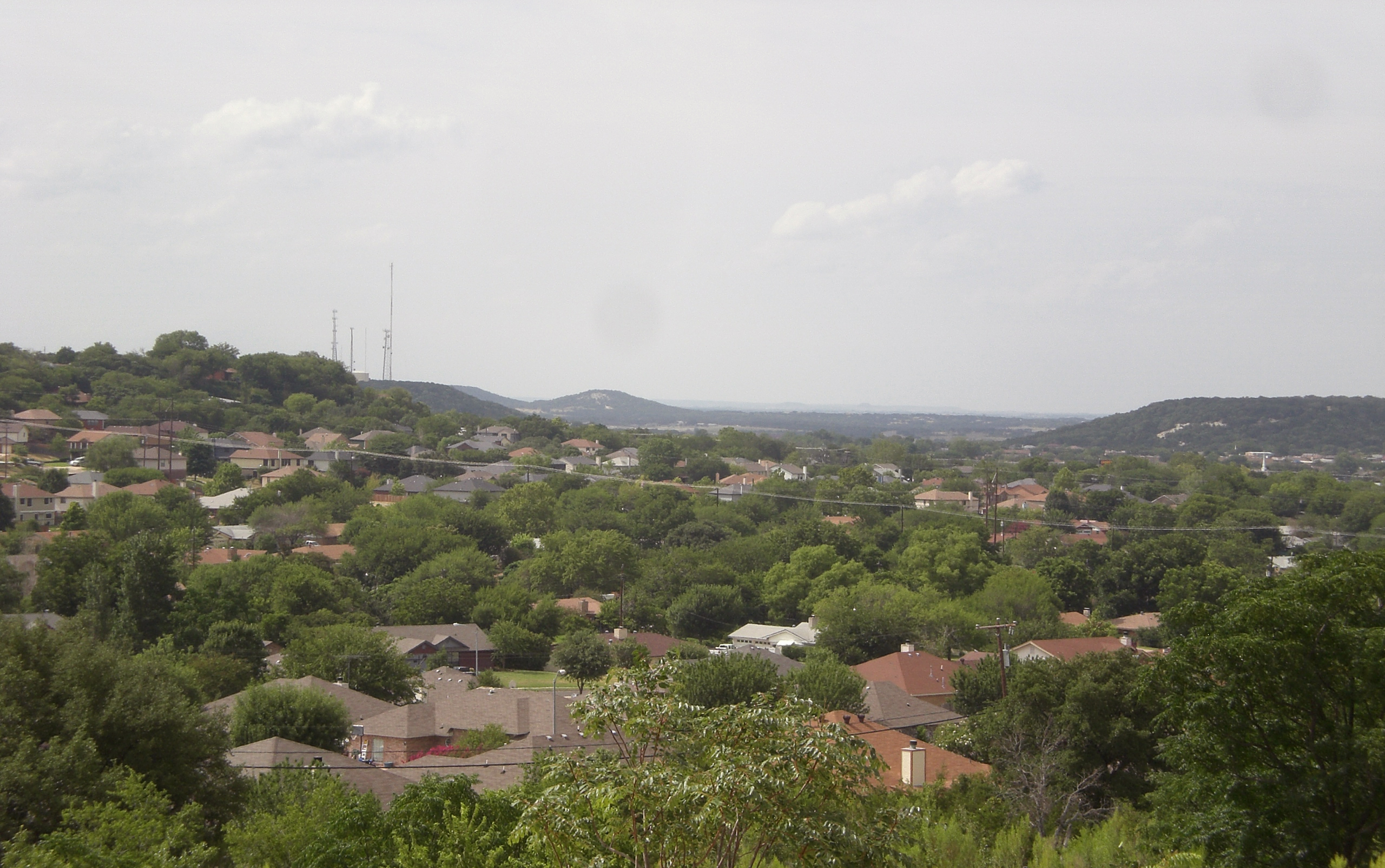 View of Copperas Cove taken from Hollie Parsons School